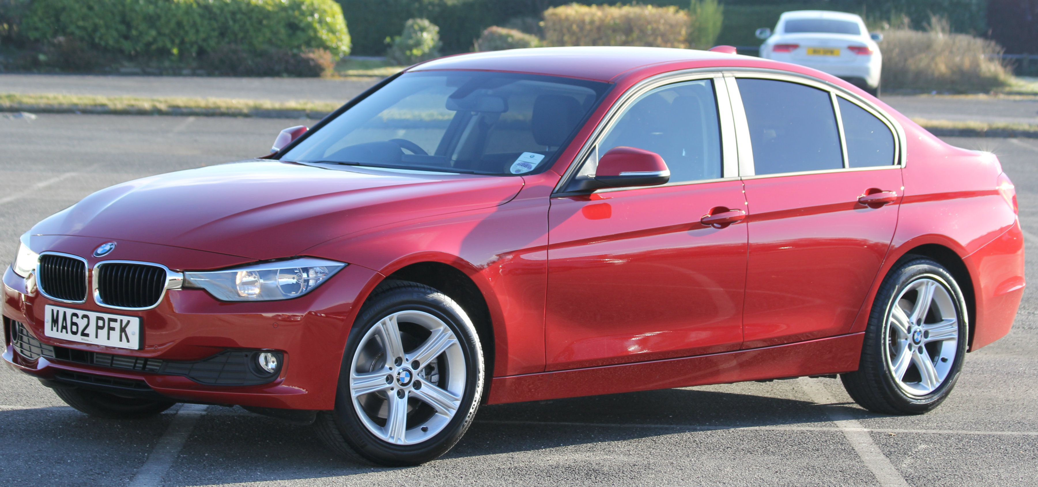 Courtesy Car for up to 3 days BMW 320d